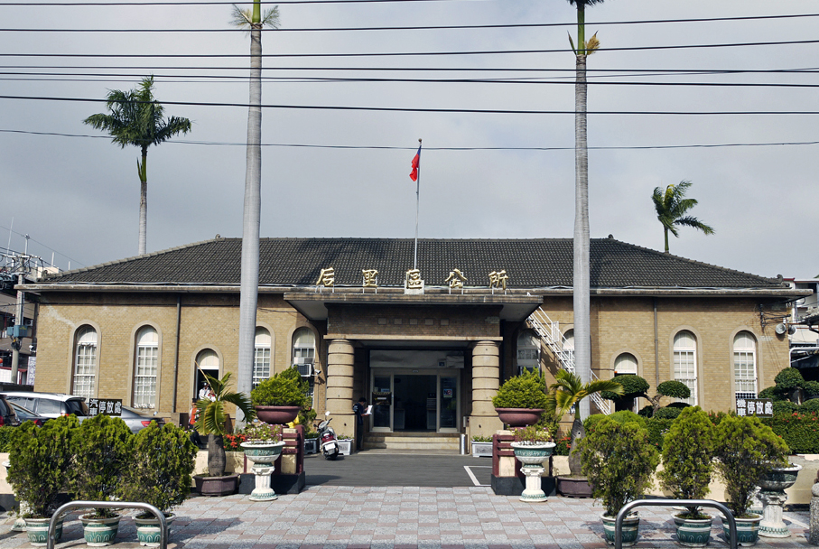 Houli District Office